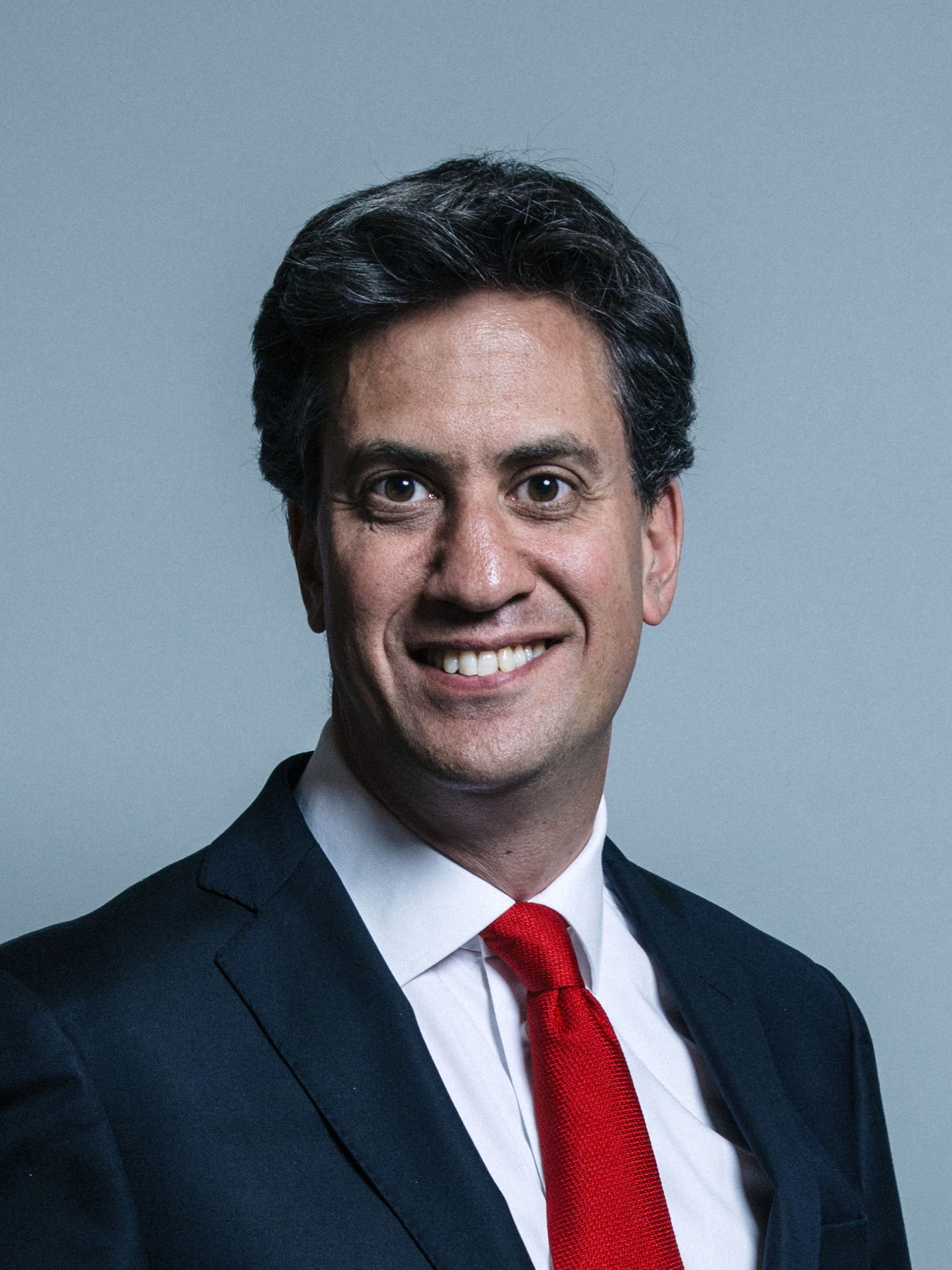 Official portrait of Edward Miliband